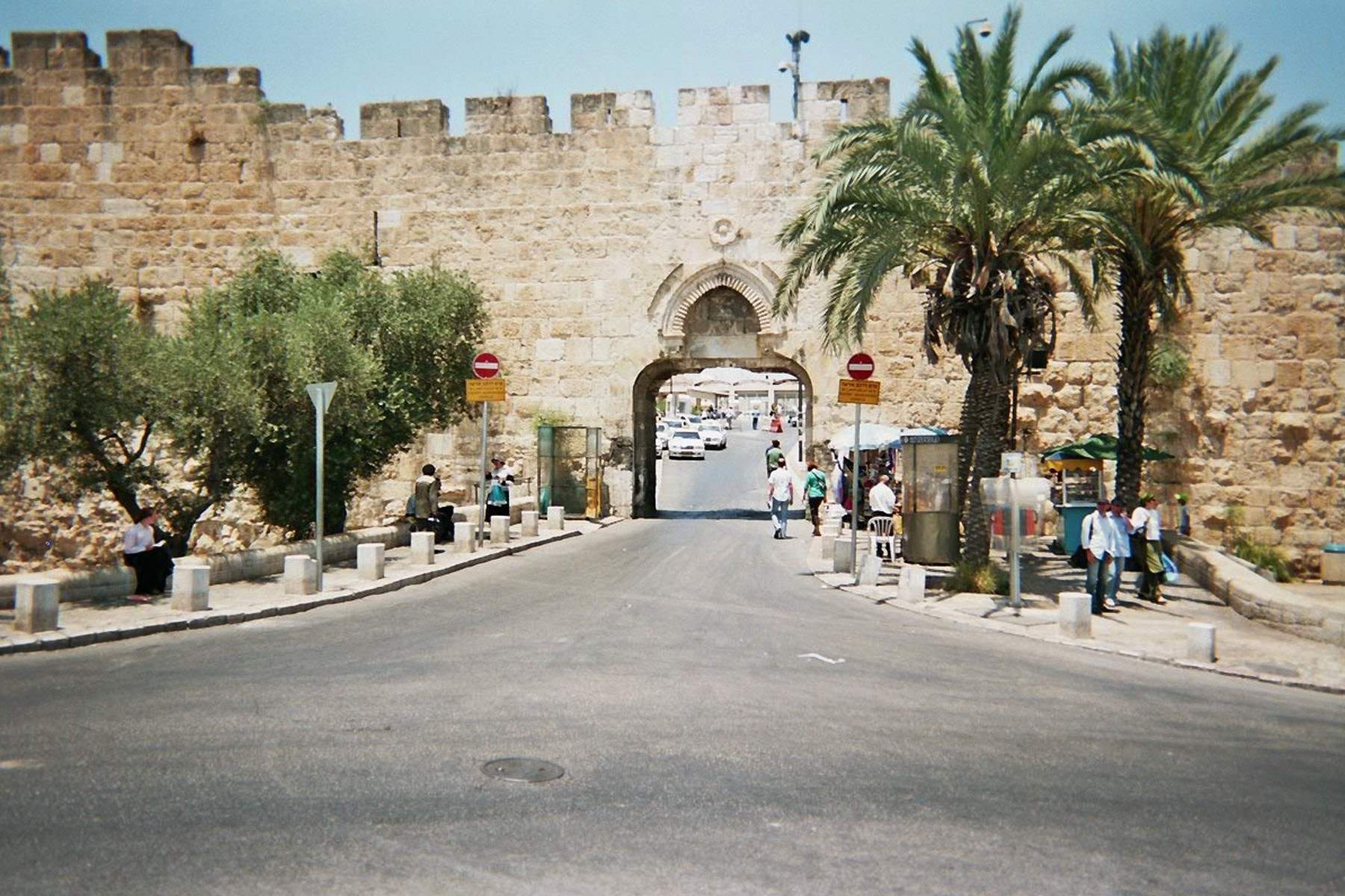 Old Jerusalem Dung Gate